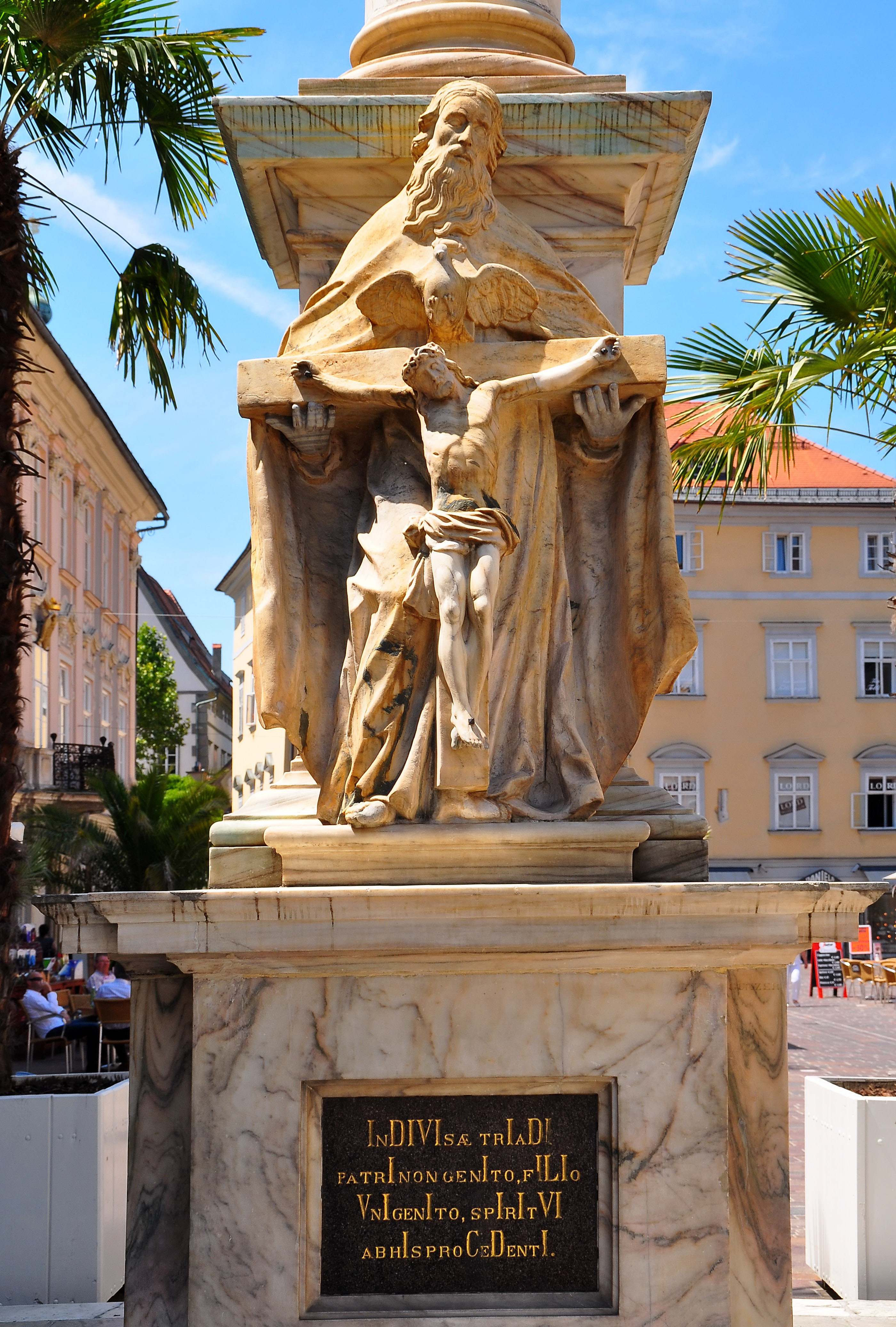 Holy Trinity column on Alter Platz, inner city, Klagenfurt, Carinthia, Austria, EU